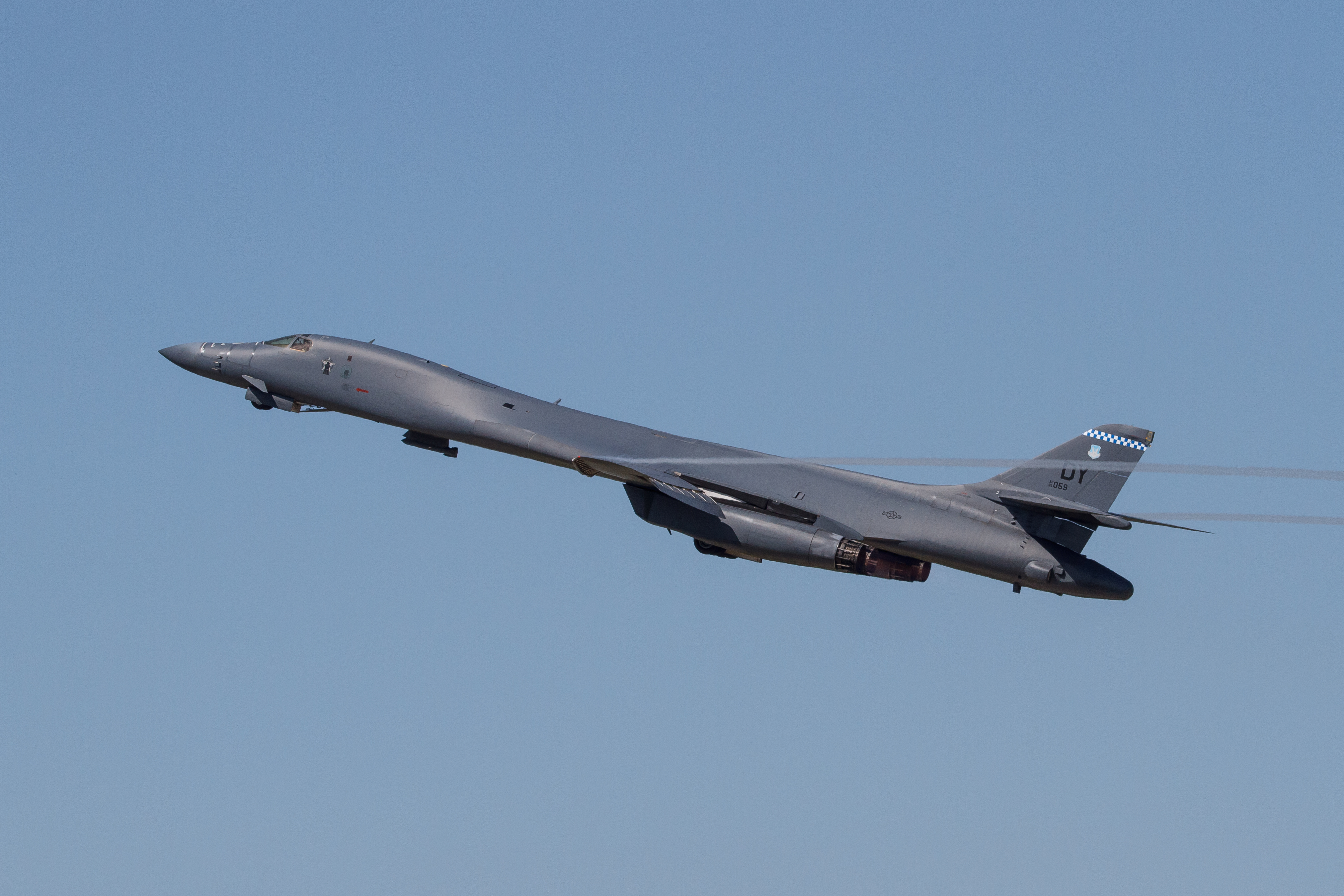 A USAF B-1 Lancer taking off at Dyess AFB Air Show 2015.